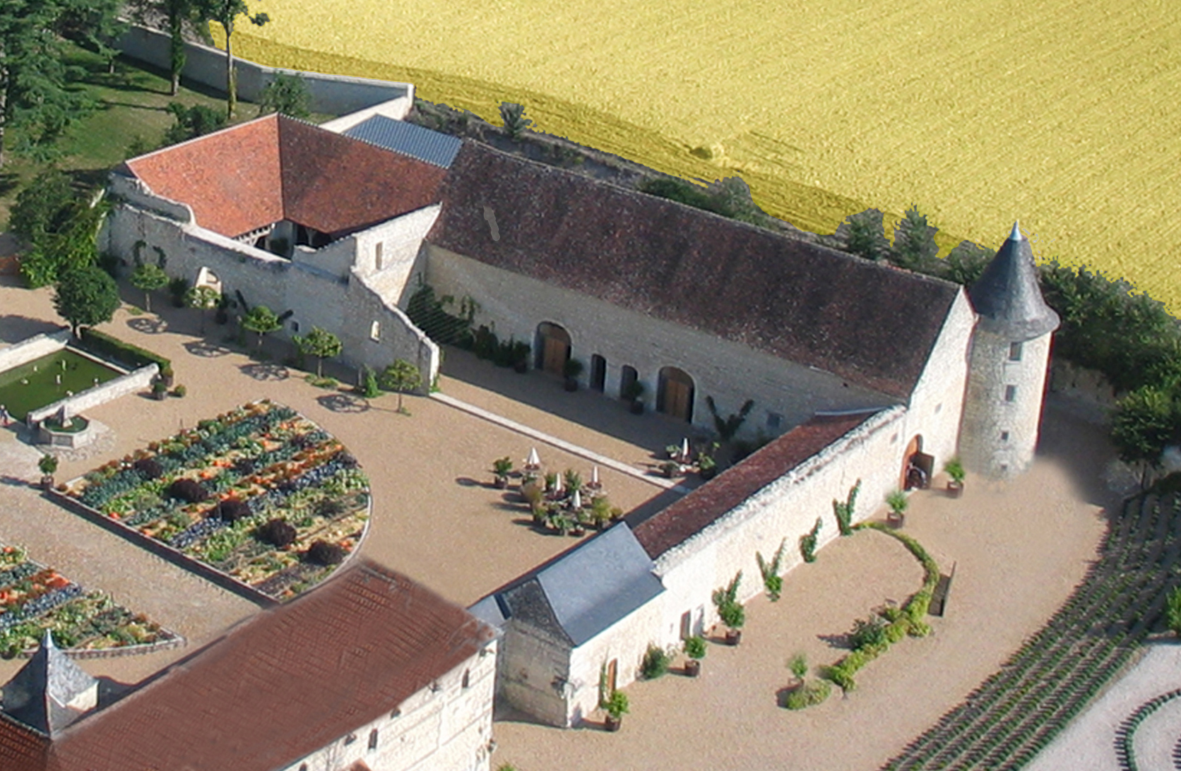 @chateaudurivau